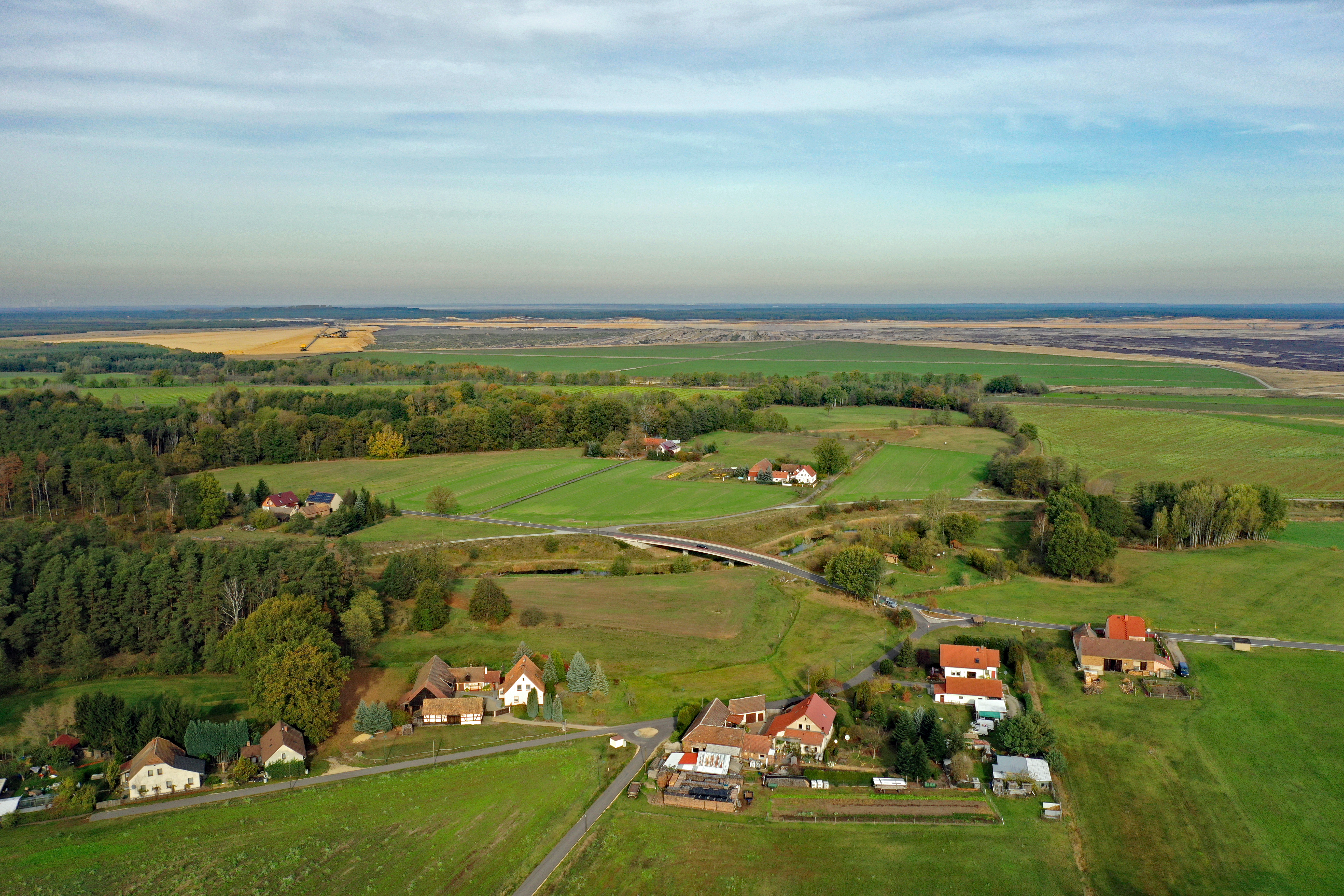 Altliebel (Rietschen, Landkreis Görlitz, Saxony, Germany) Hornjoserbsce: Powětrowy wobraz Stareho Lubolnja (prjedy Napadź) z Rychwałdskej jamu w pozadku